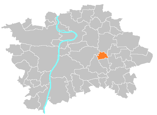 Location map of municipal district Prague-Štěrboholy